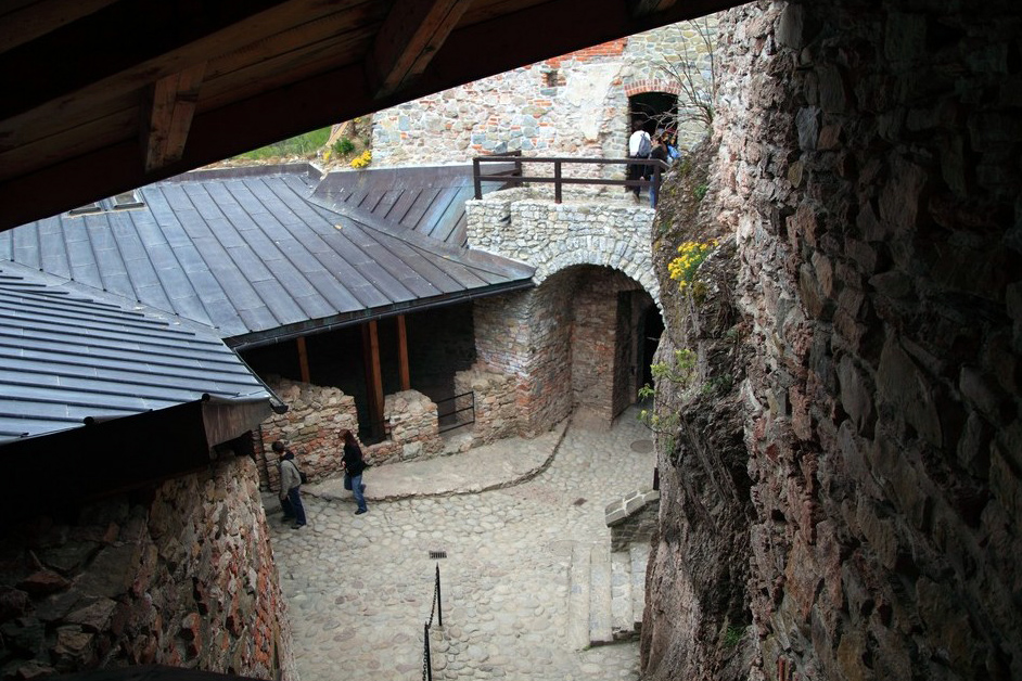 Czorsztyn Castle